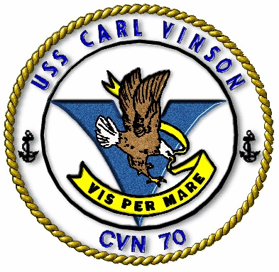 Seal of USS Carl Vinson (CVN-70).